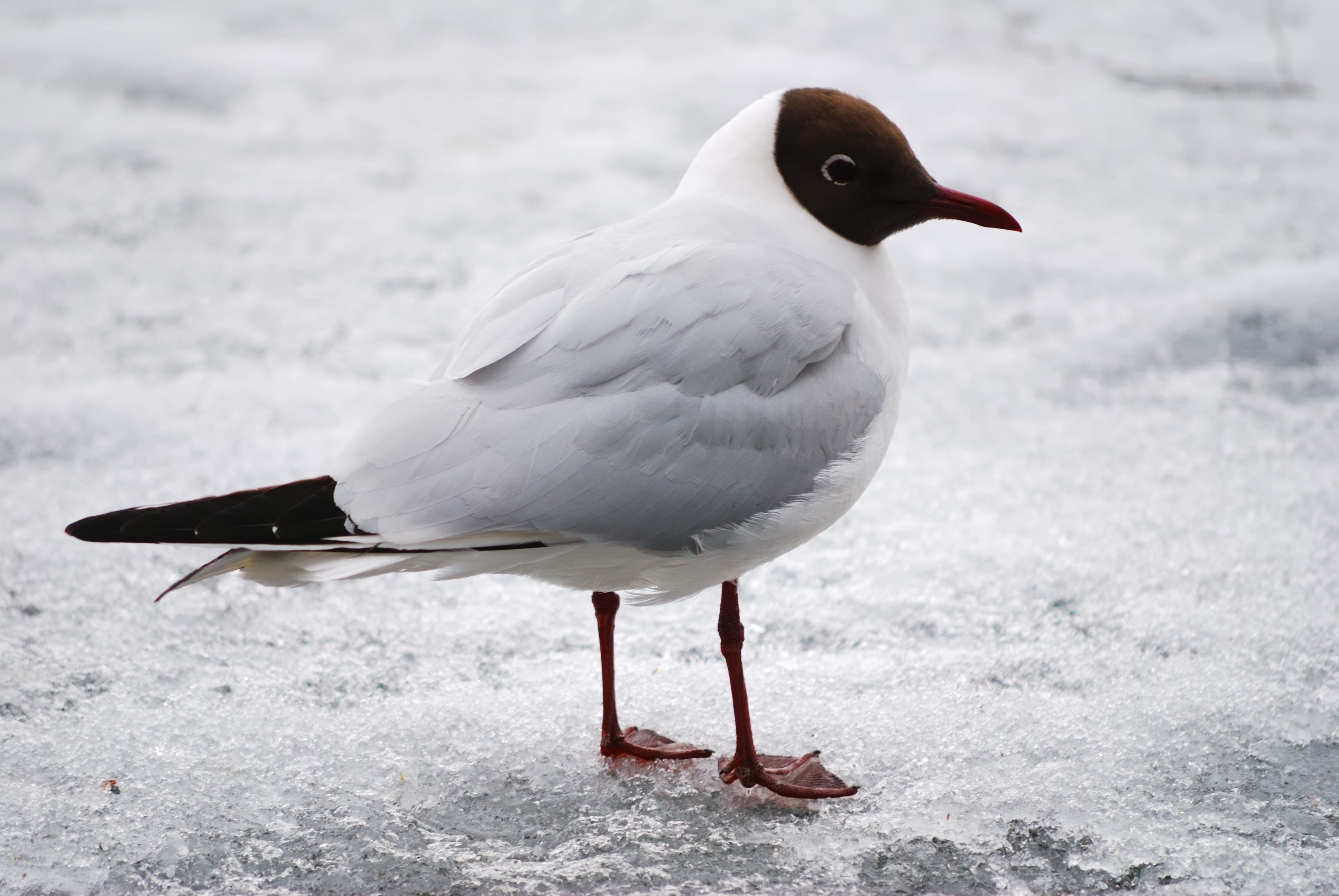 Black-headed Gull